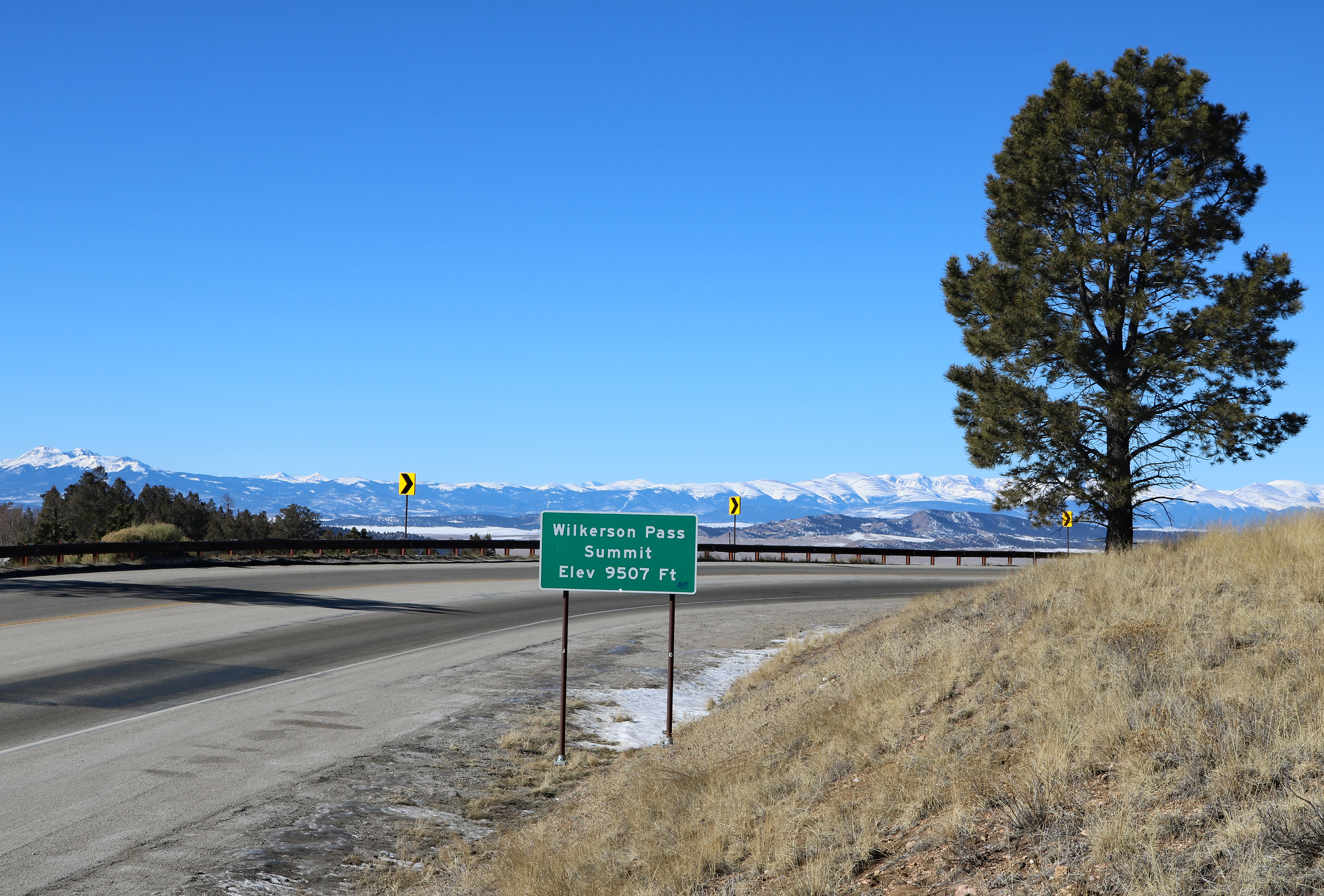 A view of the top of Wilkerson Pass in Park County, Colorado. The view is towards the west across South Park.